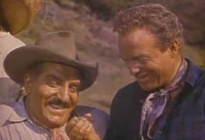 Mario Siletti (left) & Van Heflin in Wings of the Hawk - trailer (cropped screenshot)